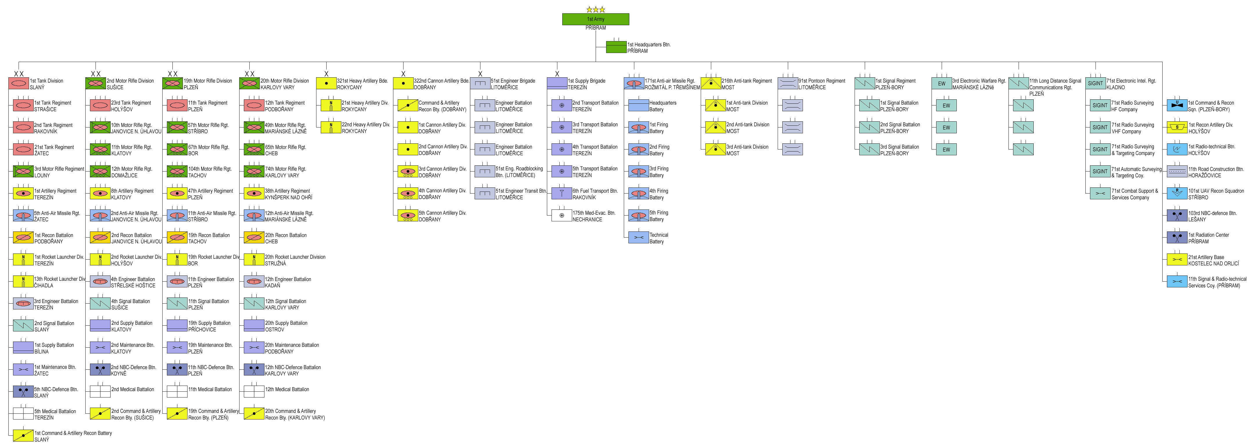 Military of Czechoslovakia: 1st Army Structure in 1989